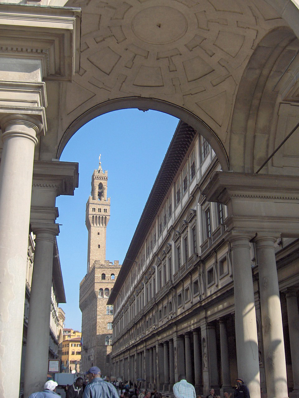 View on the Uffizi and Palazzo Vecchio, seen from the banks of the Arno; Florence, Italy Own photo - photo made by Georges Jansoone on 13 October 2005